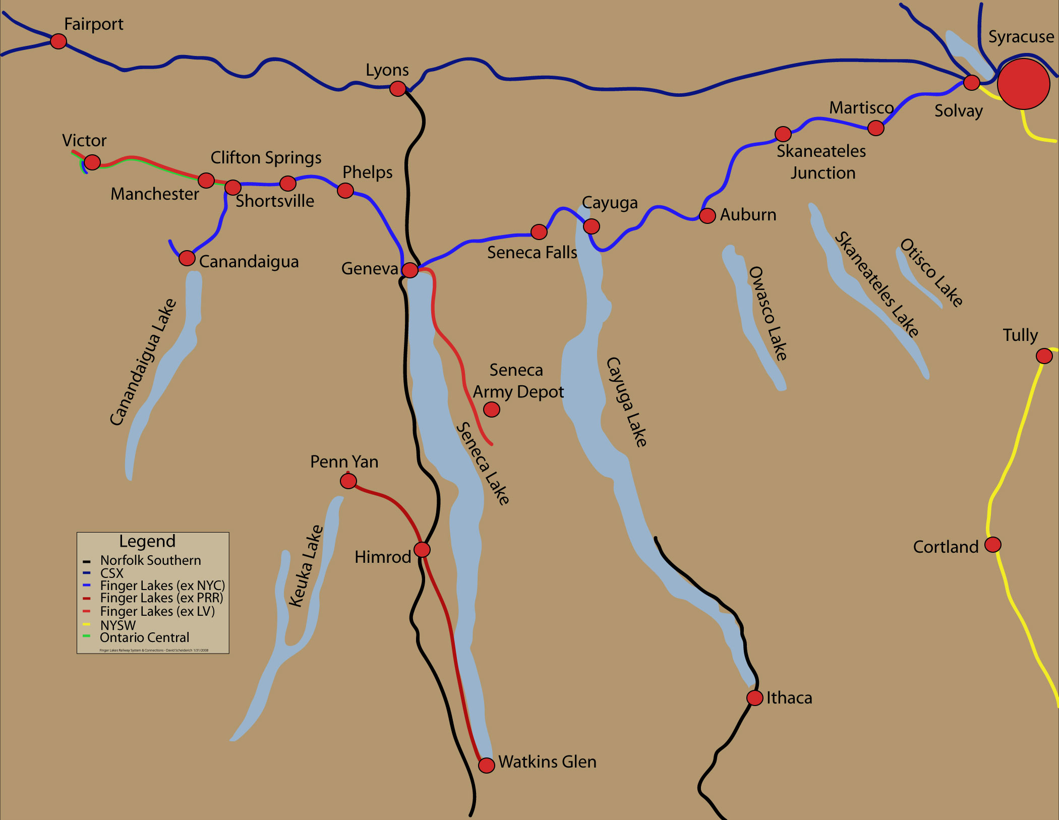 Map of the Finger Lakes Railway showing its component predecessors and interchanges.